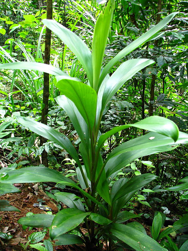 C. cannifolia in rainforest at Crawford's Lookout, Palmerston Highway, in Wooranooran National Park.